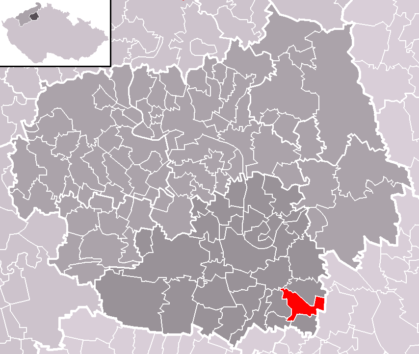 Location of Kostomlaty pod Řípem municipality within Litoměřice District and administrative area of Roudnice nad Labem as a Municipality with Extended Competence.